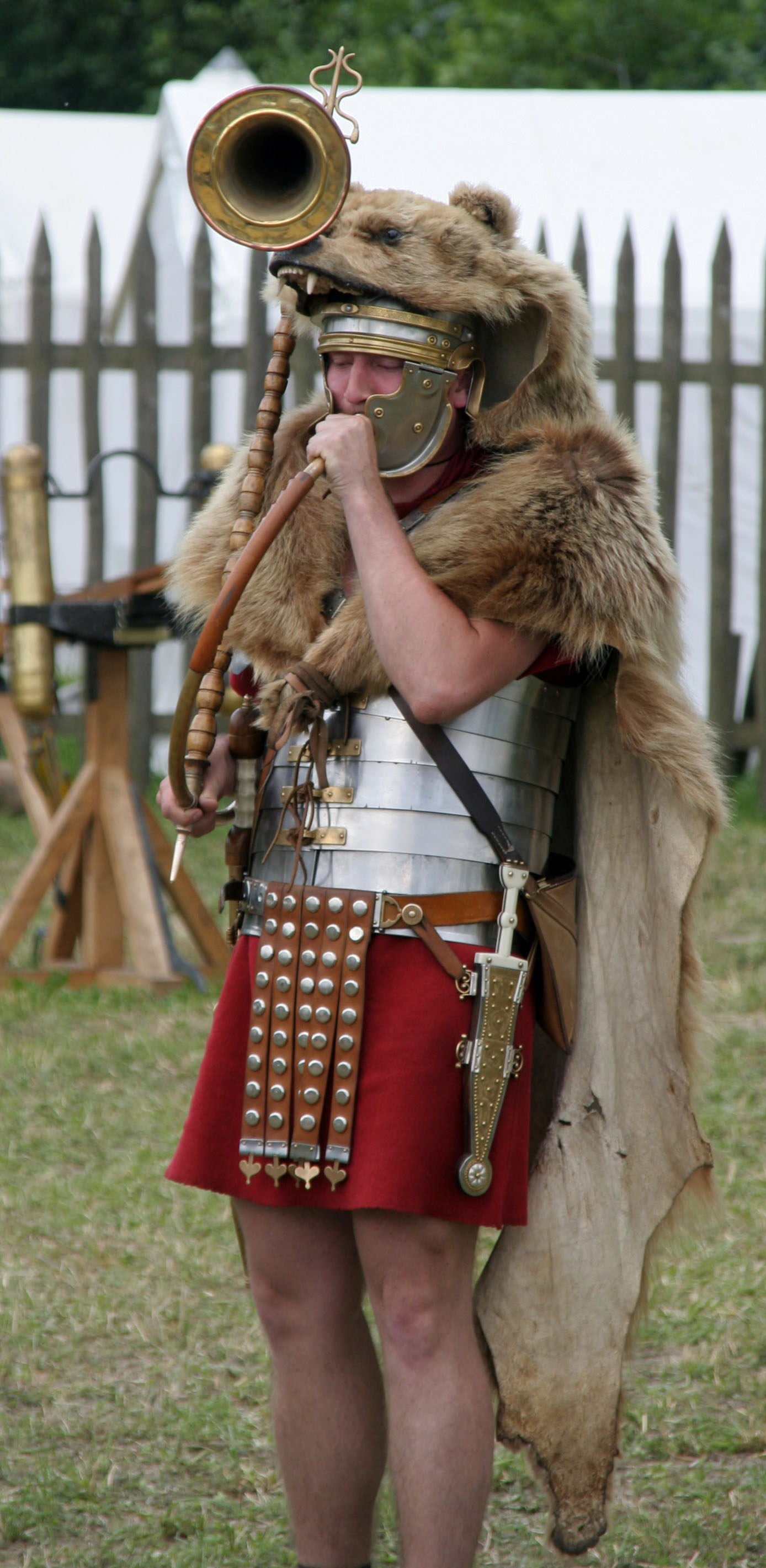 Cornicen Photographed by myself during a show of Legio XV from Pram, Austria